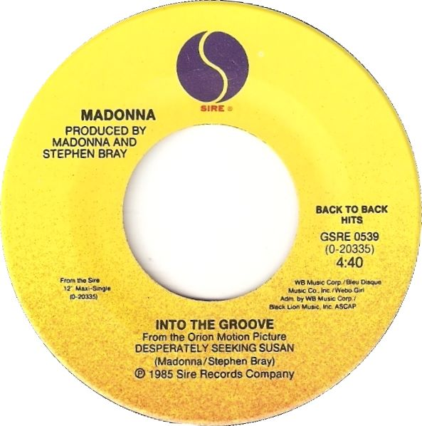 A label of U.S. vinyl release of "Into the Groove" by Madonna